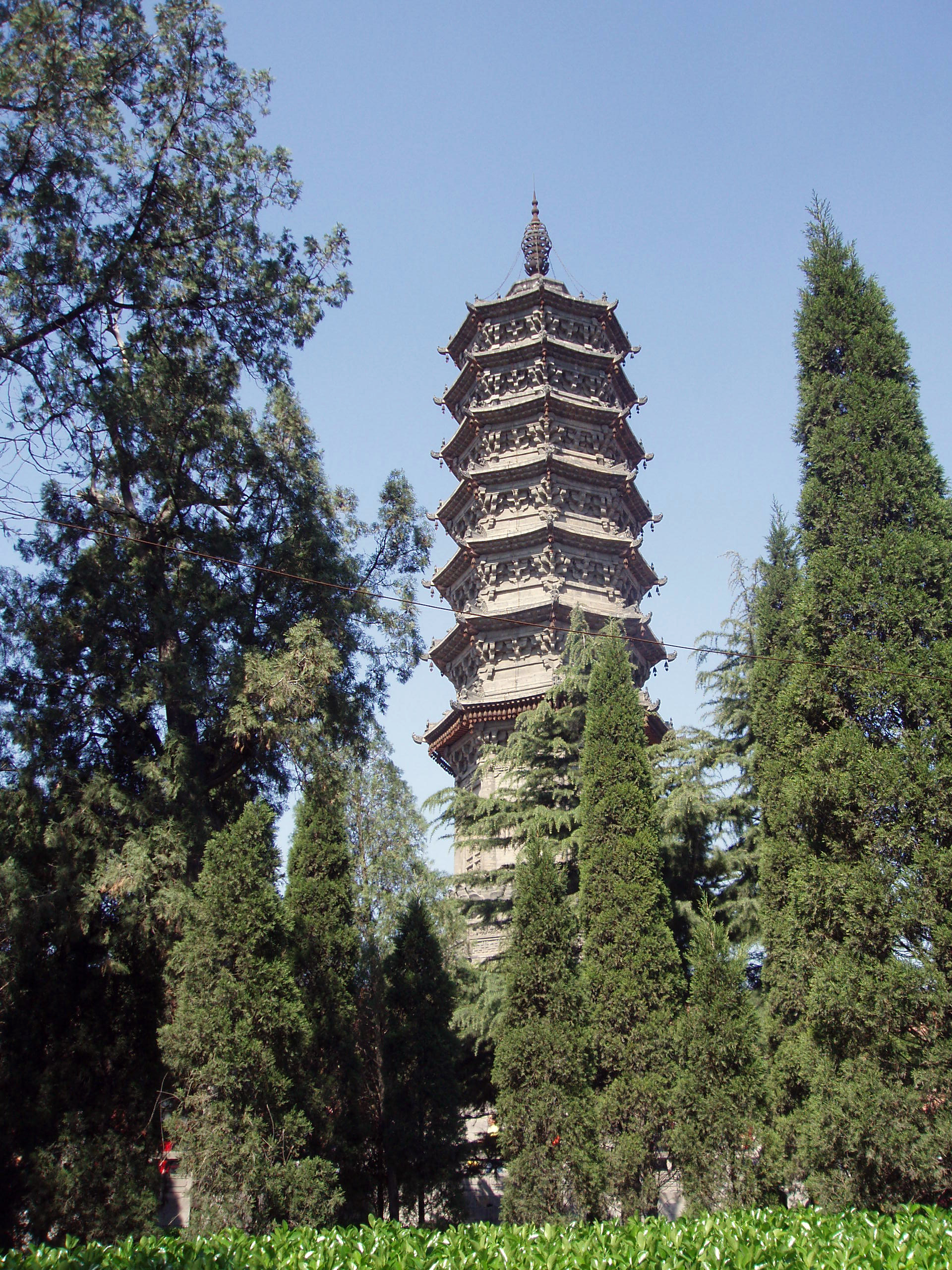 Bailin temple (柏林禅寺) — 14th century Yuan Dynasty pagoda in Shijiazhuang, Hebei Province, China.